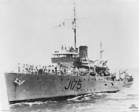 Australian Bathurst class corvette HMAS Cessnock.